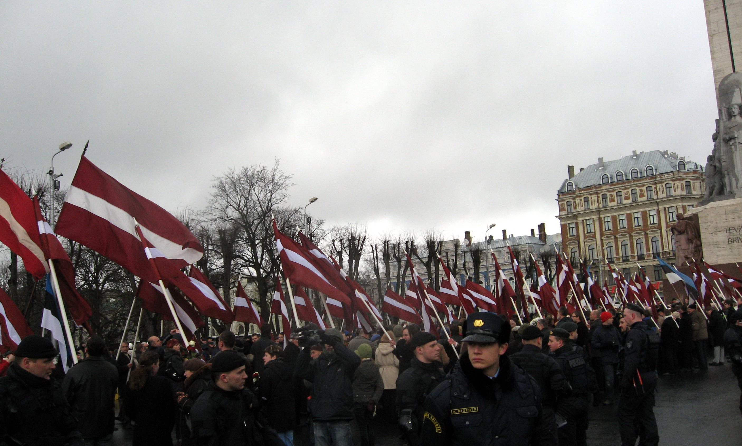 Latvian Legion Day